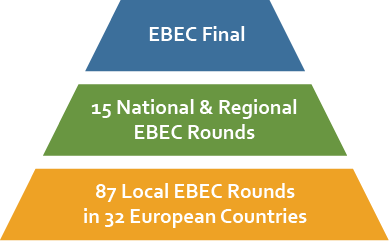 EBEC pyramid